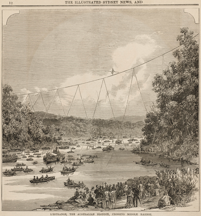 Illustration of the tightrope walker Henri Blondin crossing Sydney Harbour